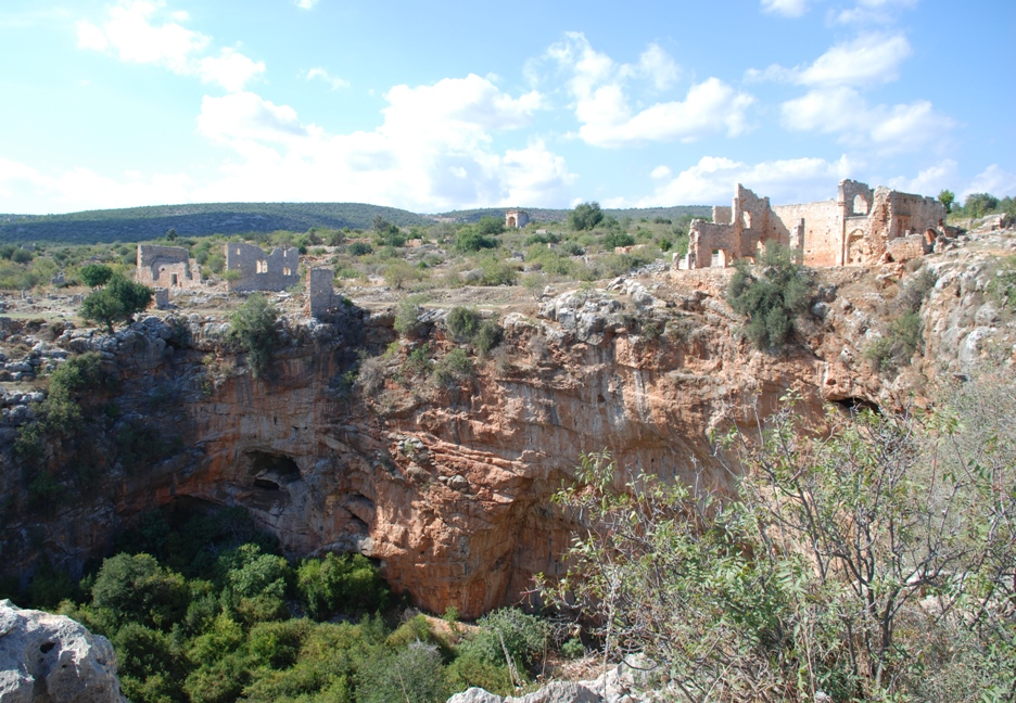 Kizkalesi Kanlıdivane